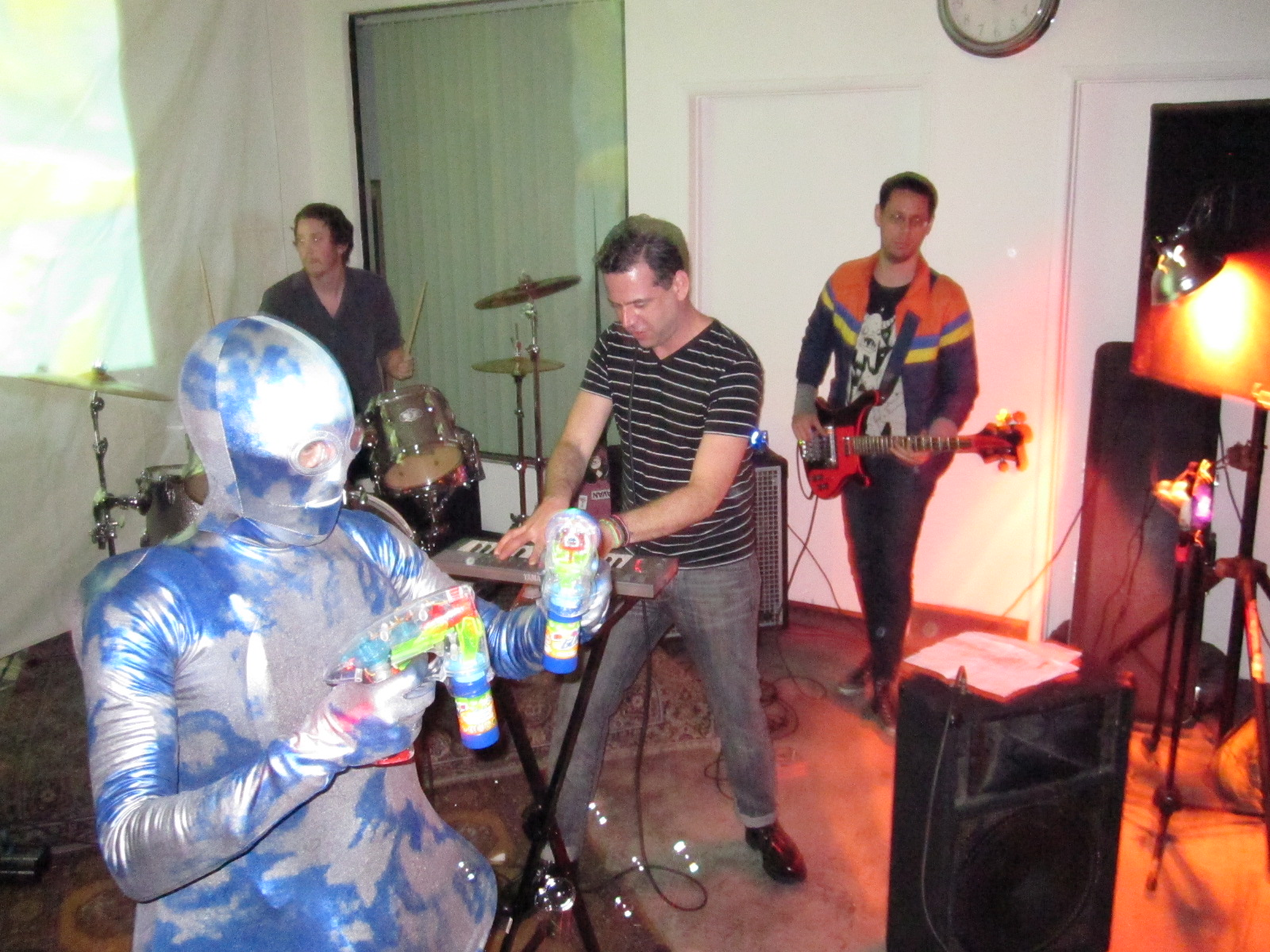 At this show, Cockwind included Sean Carnage, Bret Berg, Narin Dickerson, and Brendan Morrison.